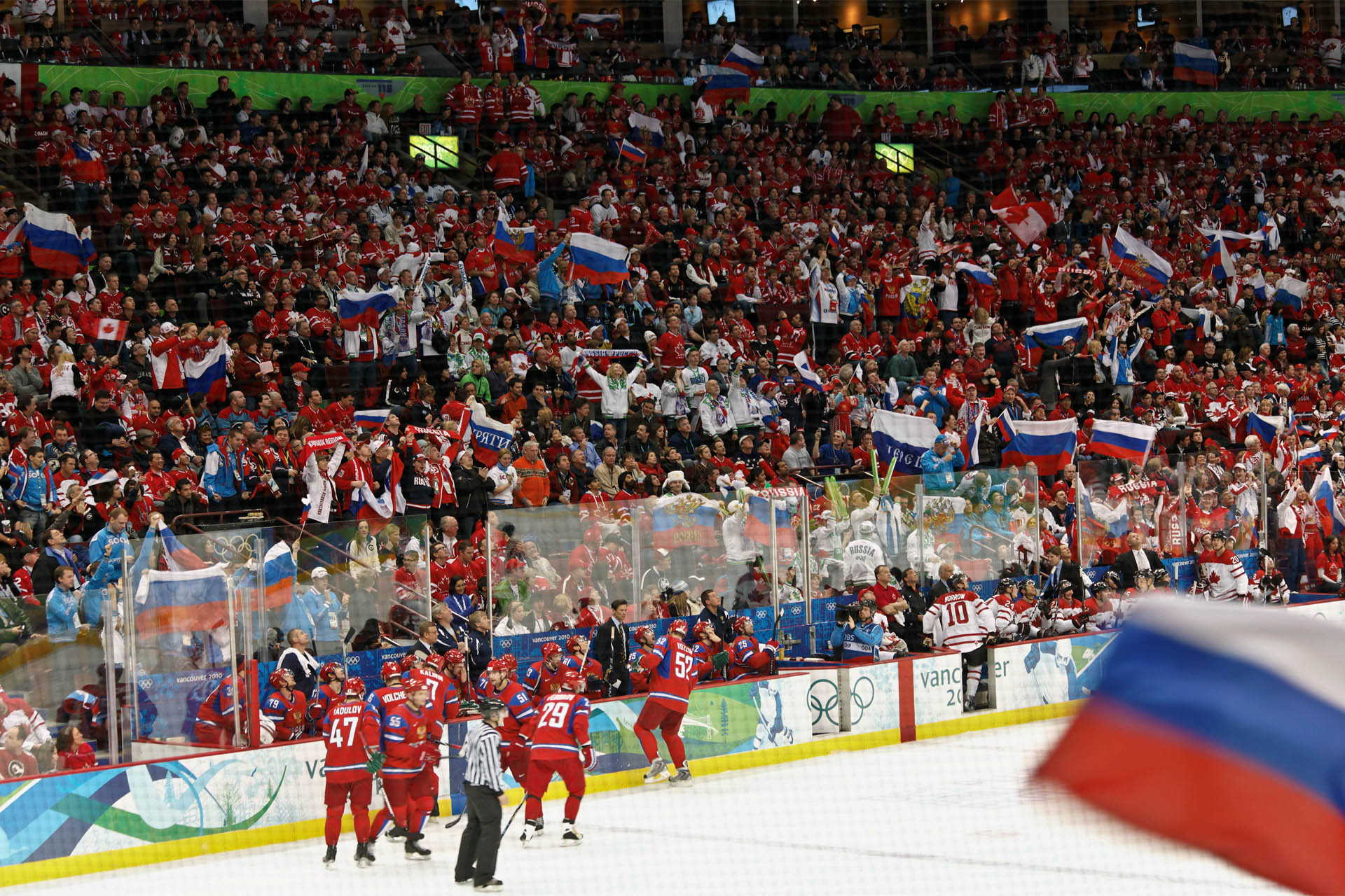 A large Russian contingency was present at Canada Hockey Place to try to cheer on their nation, past Canada, and in to medal contention where they have been at every Olympics. Picture taken in Gastown, Vancouver, BC, CA, using a Canon EOS 5D Mark II.